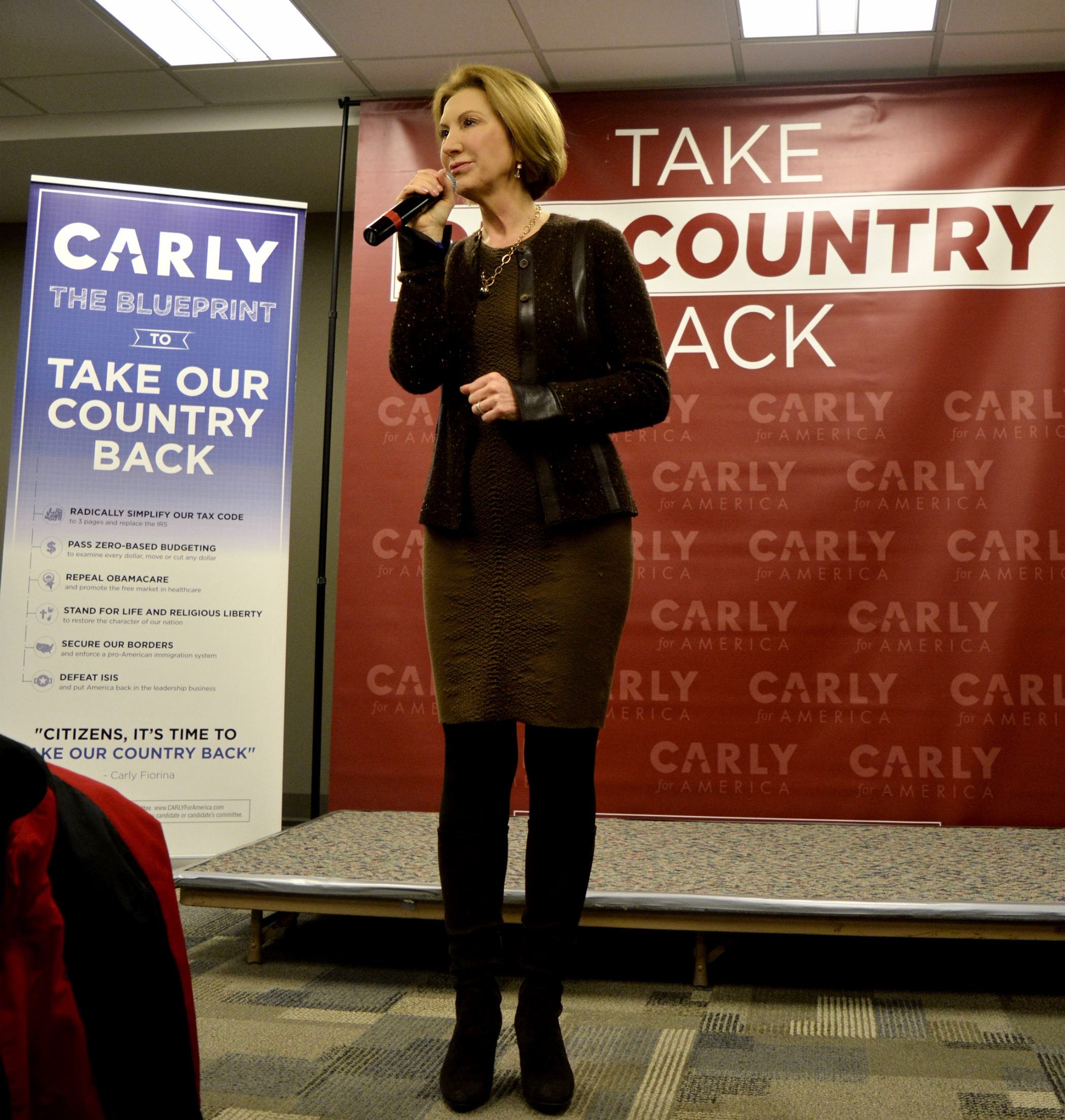 in Ames, Iowa